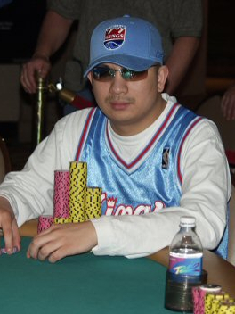 J. C. Tran in World Series of Poker Circuit Las Vegas Rio 2005.